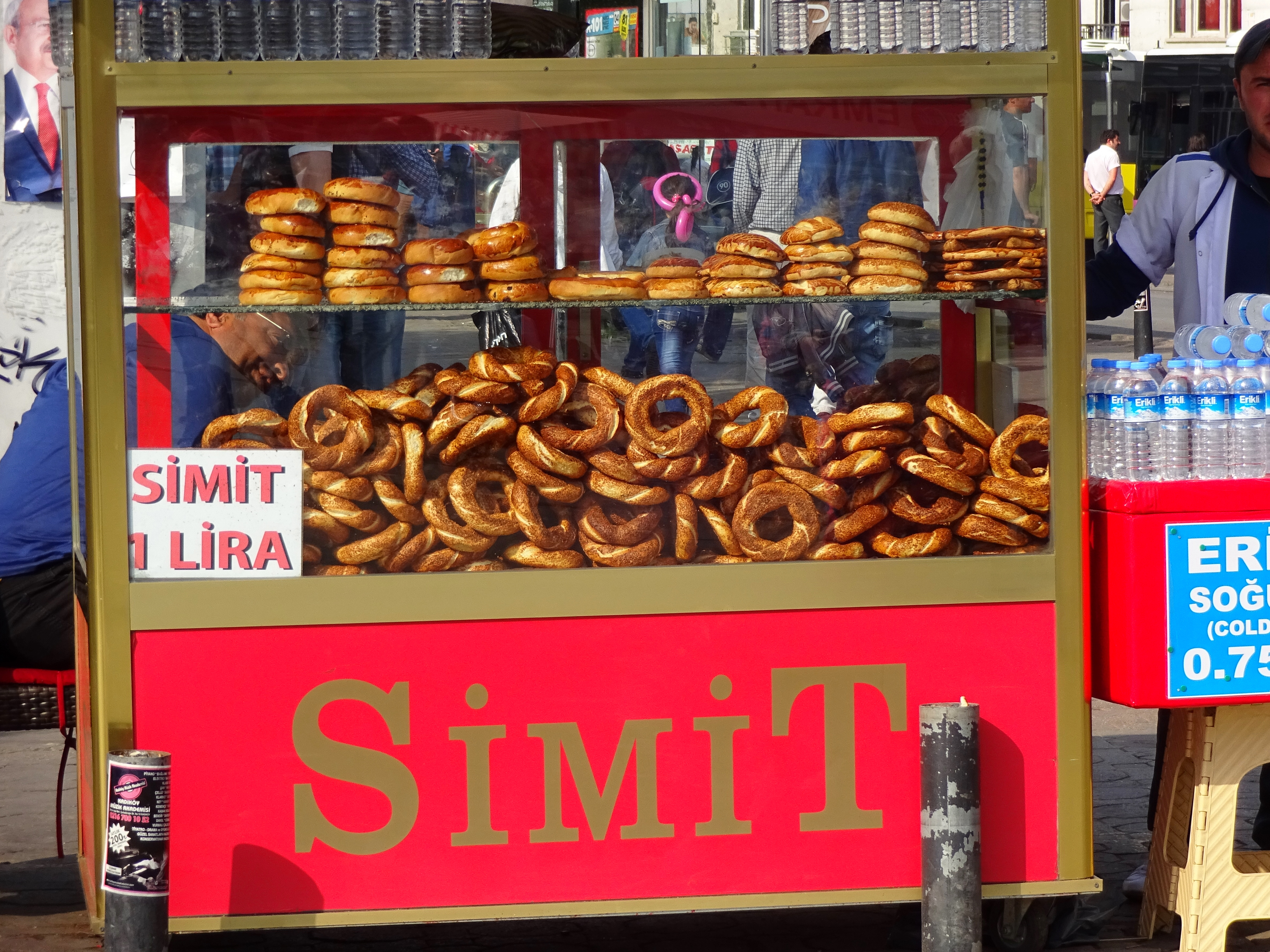 Mobile shop for Simit sesame rings in Istanbul